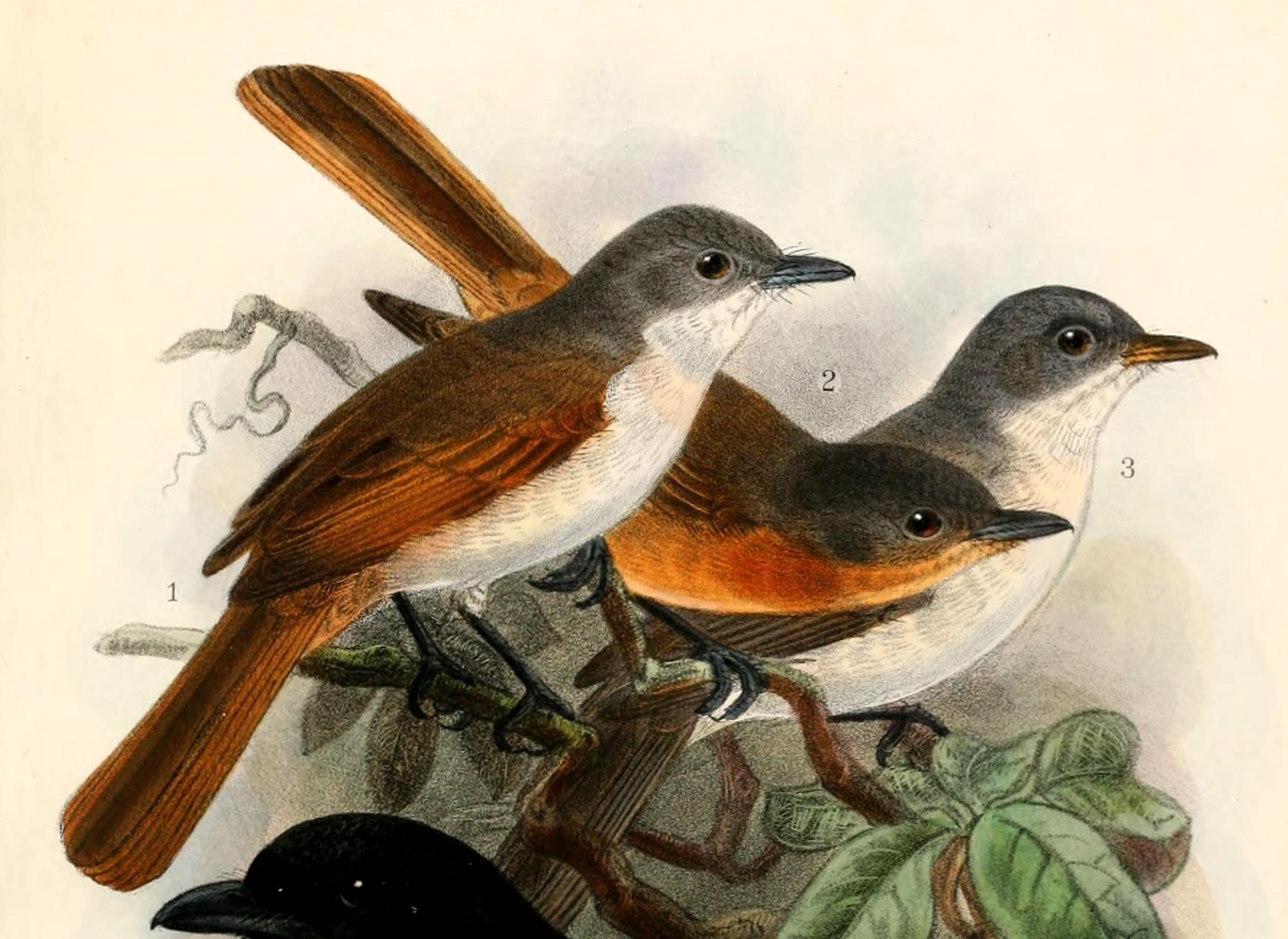 « Myiagra cervinicauda ferrocyanea » = Myiagra ferrocyanea ferrocyanea (Subspecies of Steel-blue flycatcher) - female « Myiagra cervinicauda cervinicauda » = Myiagra cervinicauda cervinicauda (Subspecies of Makira flycatcher) - female « Myiagra cervinicauda feminina » = Myiagra ferrocyanea feminina (Subspecies of Steel-blue flycatcher) - female